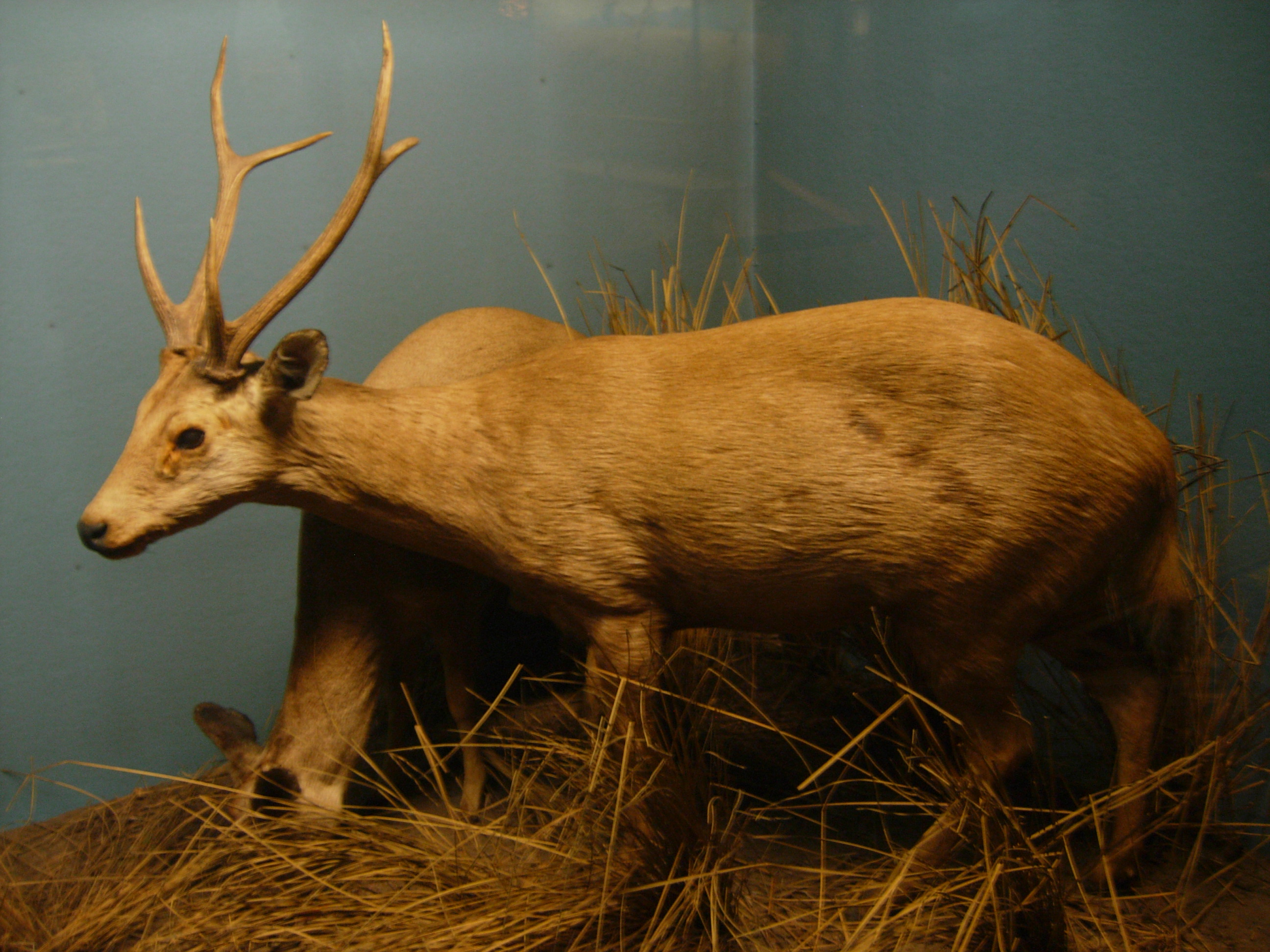 A pair of Hog deer (Axis porcinus), at the Museum of Natural History